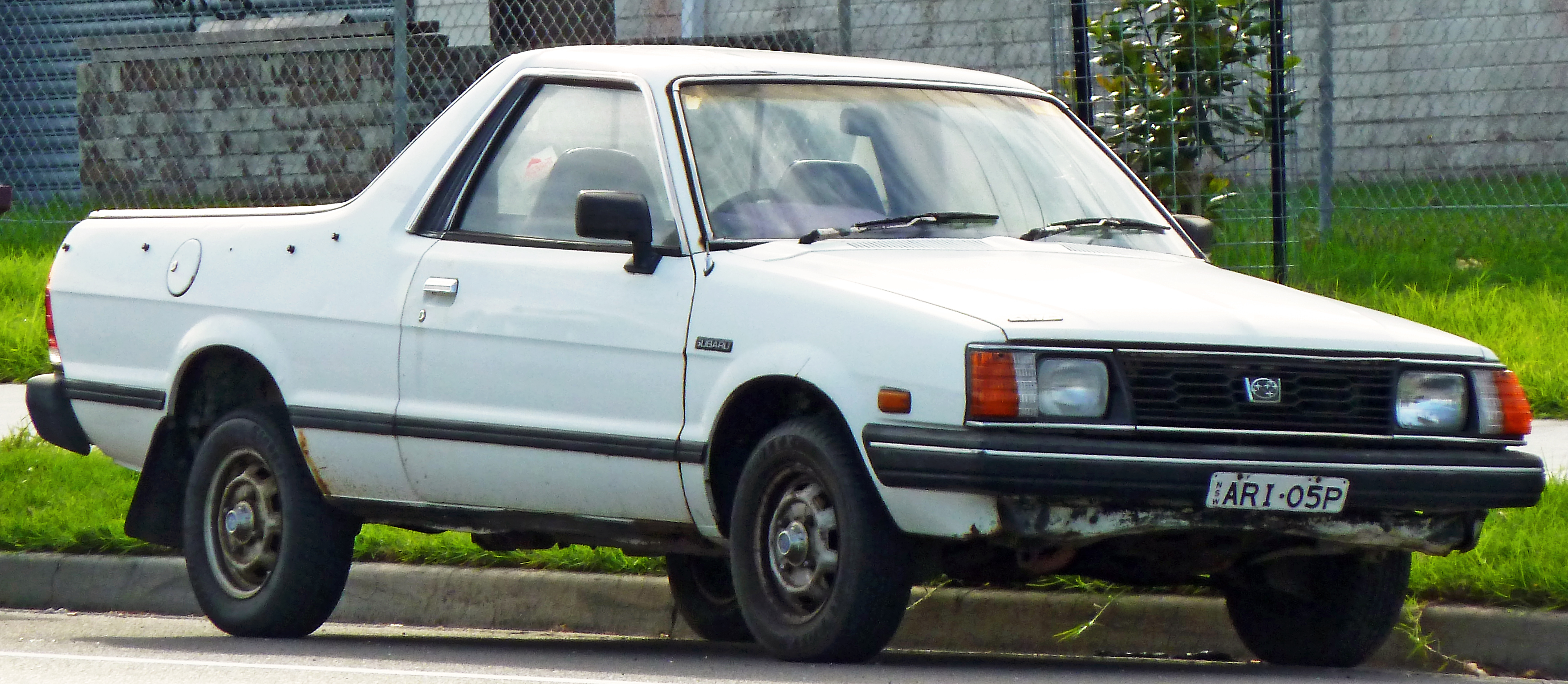 1987 Subaru Brumby utility. Photographed in Kirrawee, New South Wales, Australia.